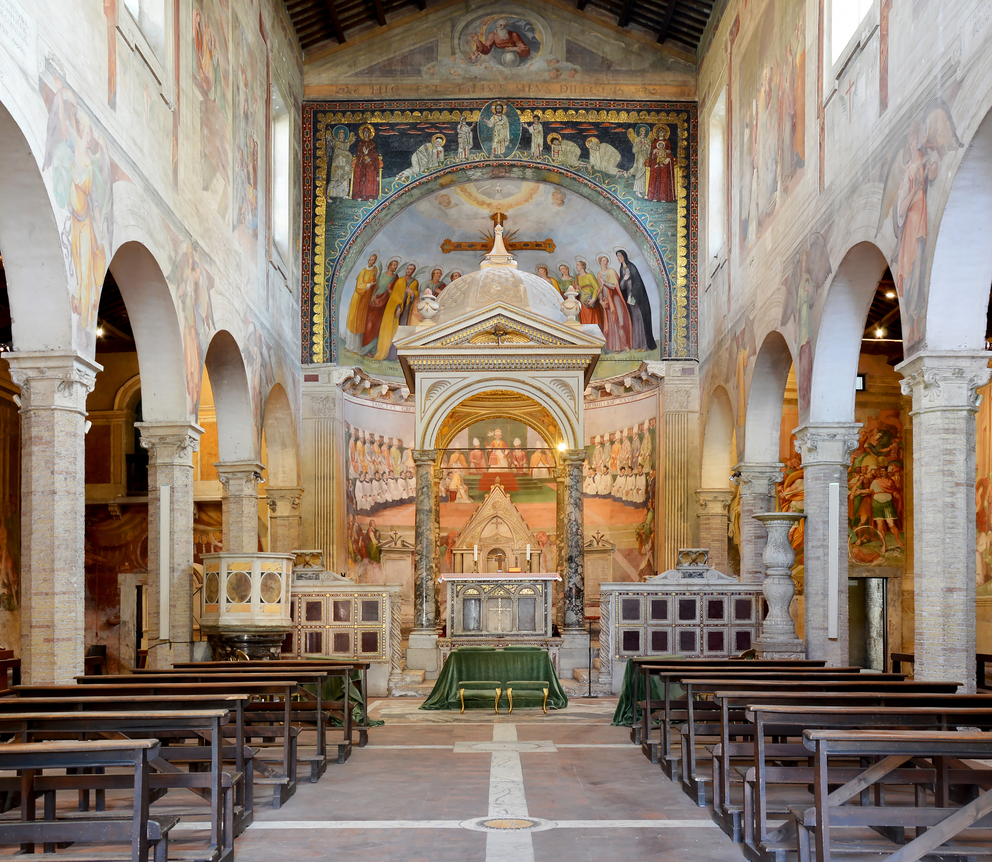 Church of Santi Nereo e Achilleo